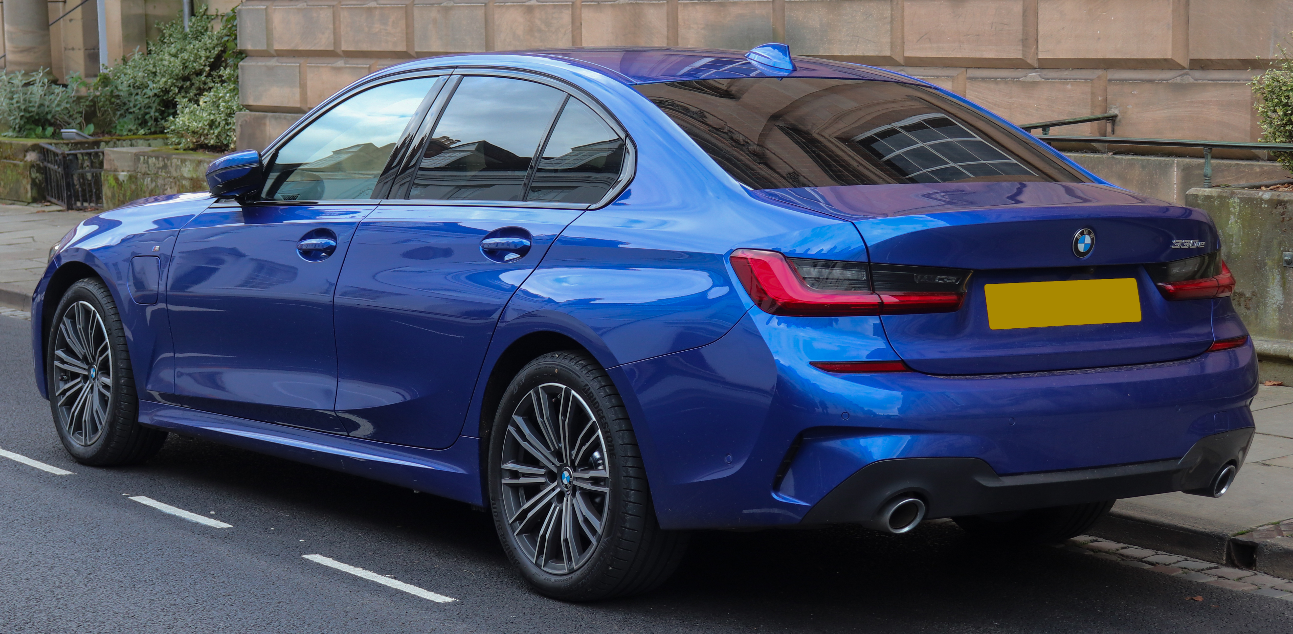 2019 BMW 330e M Sport Automatic 2.0 Rear Taken in Warwick